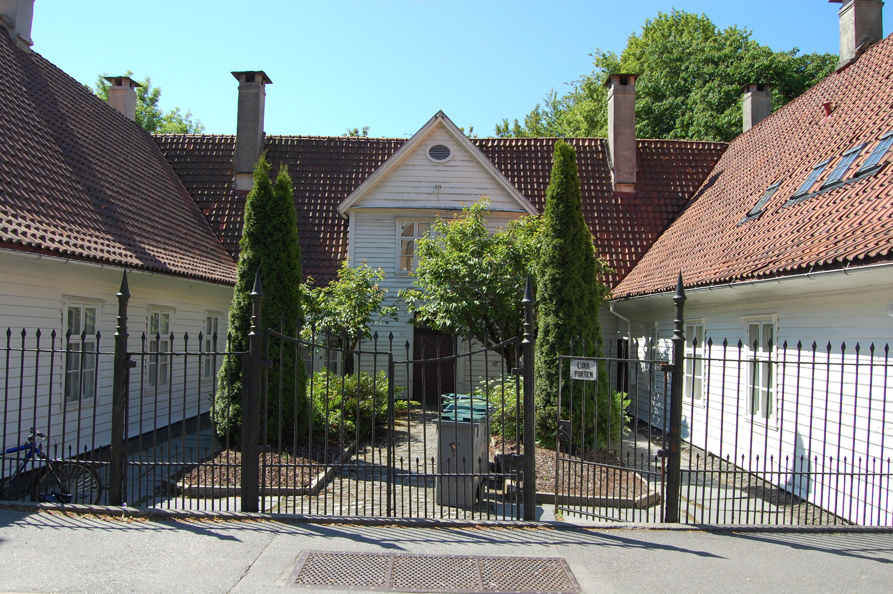 Zander Kaaes stiftelse, Bergen, Norway.